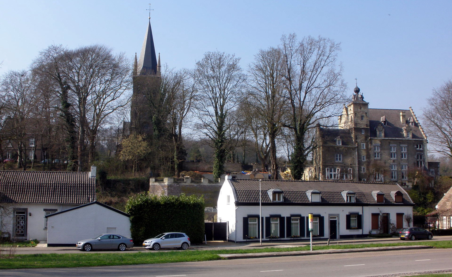 Maastricht, the Netherlands. View of the village of Sint Pieter on the Eastern slope of mount Sint-Pietersberg, South of Maastricht.